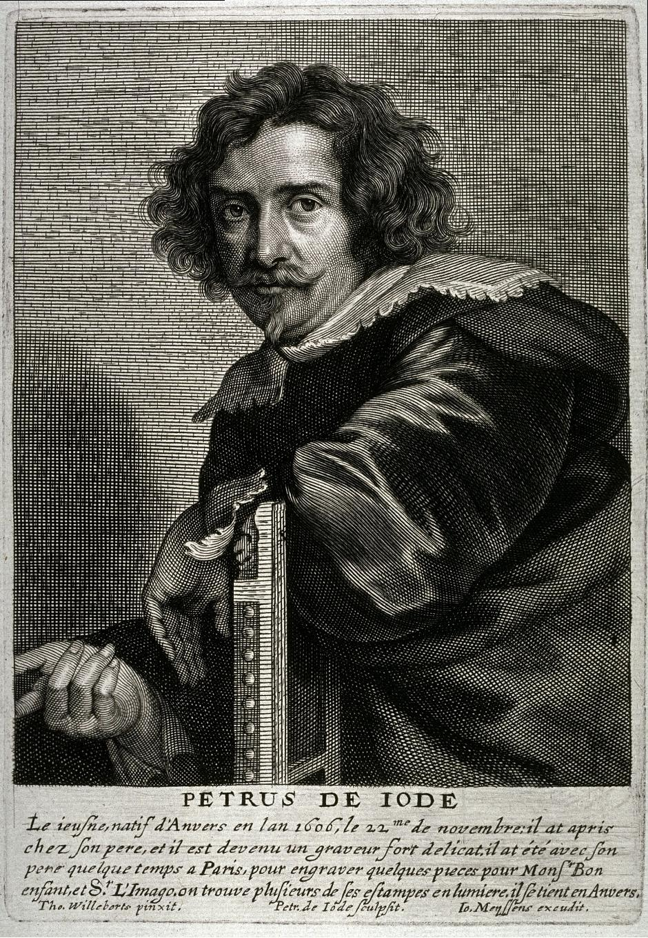 Portrait of Pieter de Jode II.